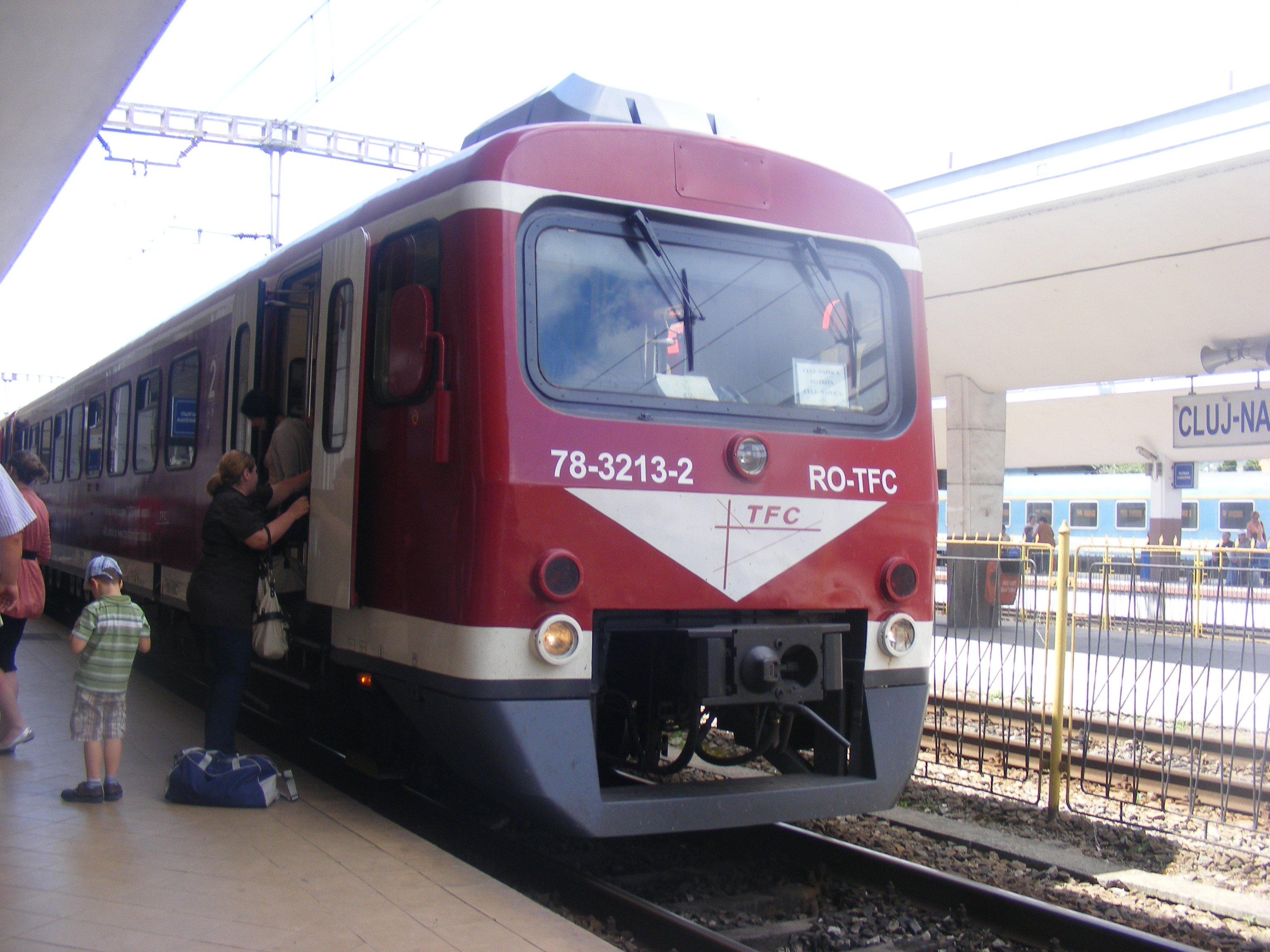 DH2 3213 "Wadloper" in the Cluj railway station, after it came with a train from Oradea